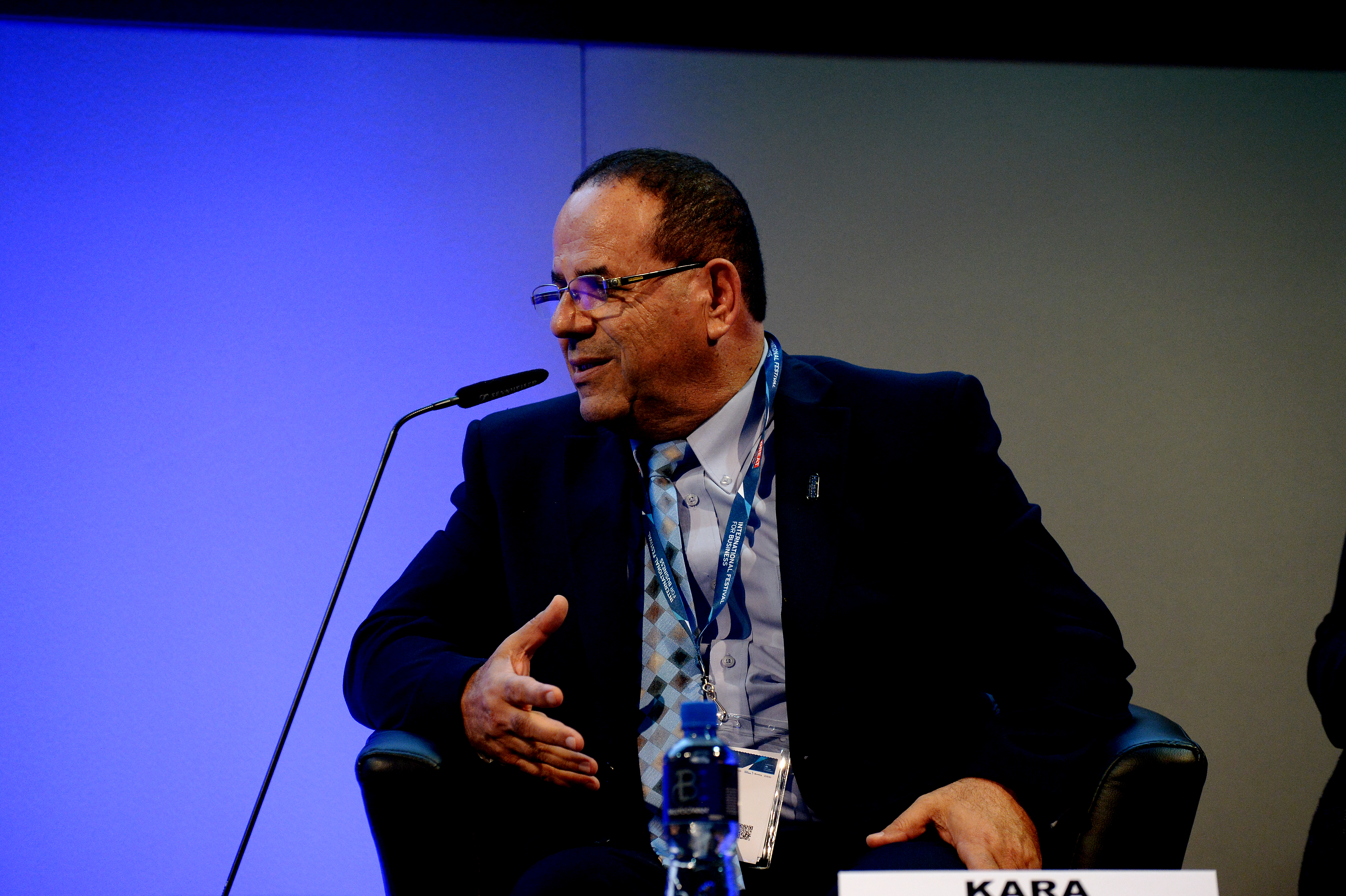 Horasis Global Meeting 2016, Liverpool, 13-14 June. Ayoob Kara speaking about the Middle East, Kopie.